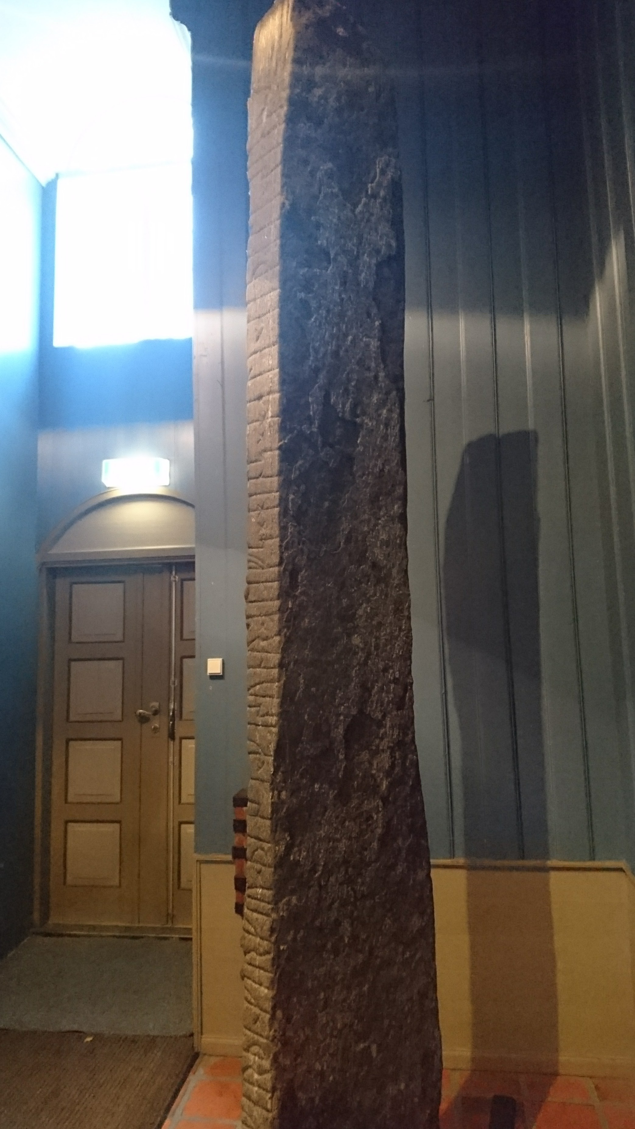 The Oddernes runestone inside the church porch of Oddernes Church.